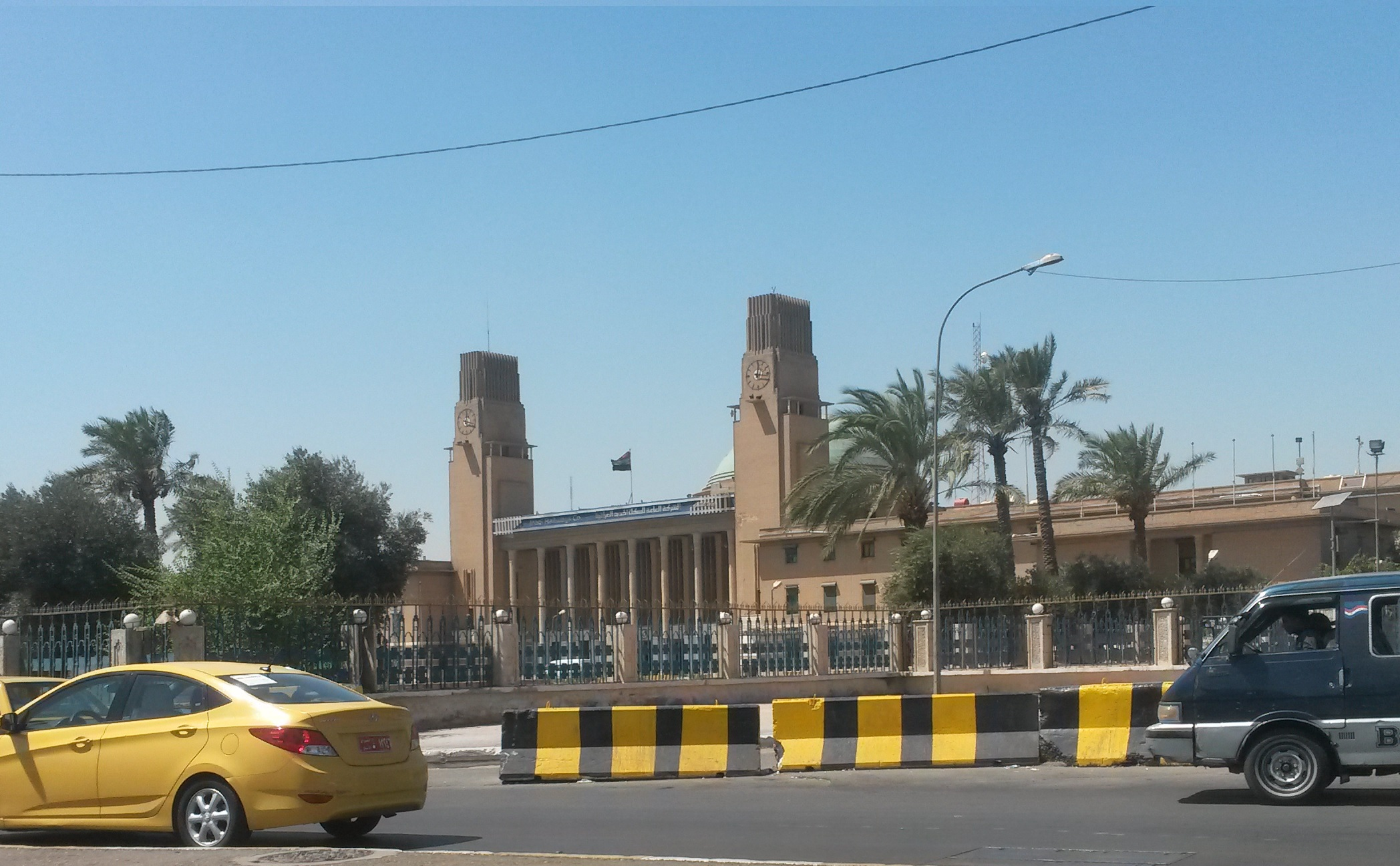 Baghdad Central Station. Cropped from :File:(الشركة العامة لسكك الحديد العراقية( محطة القطار.jpg .